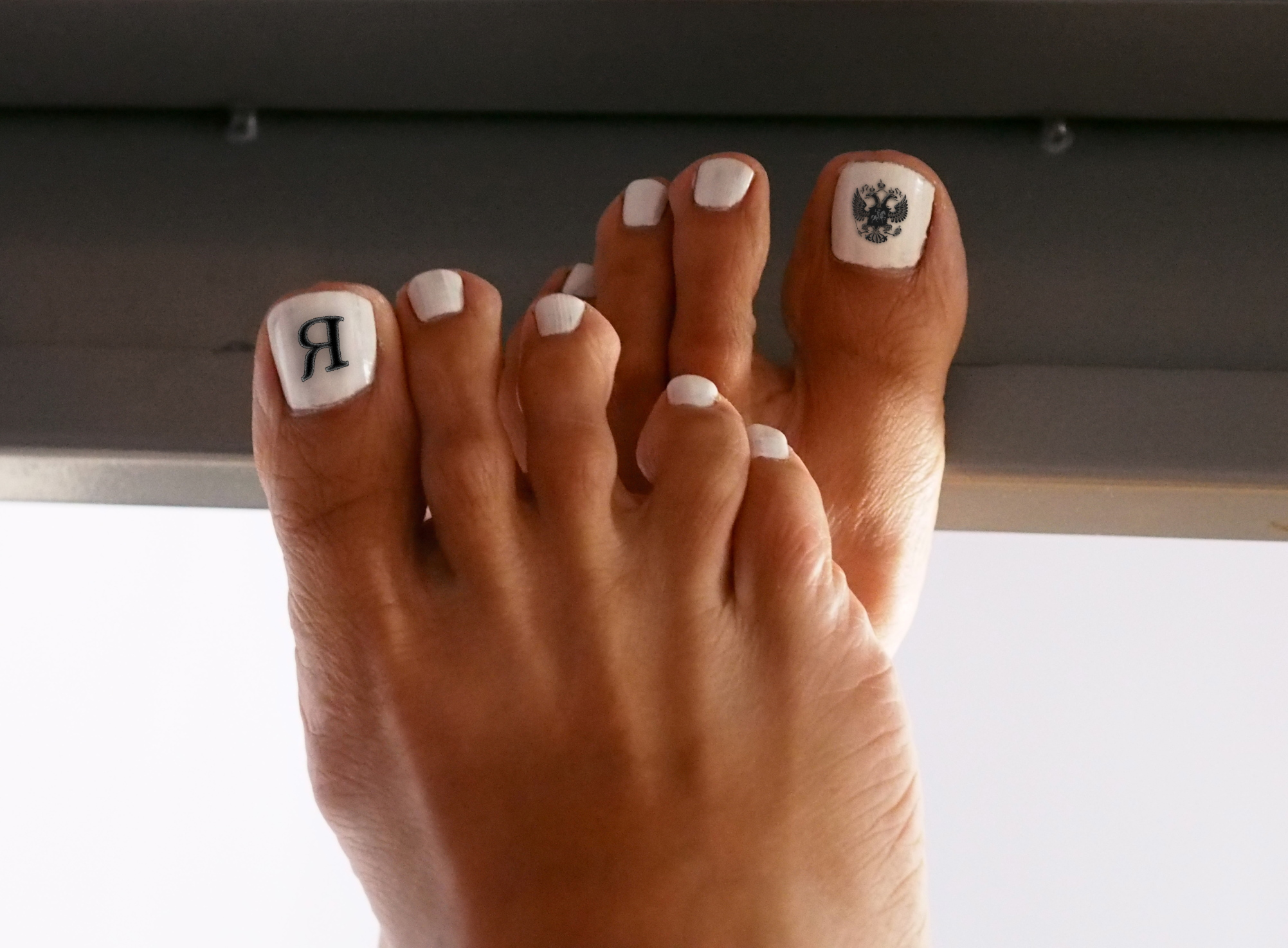 Woman feet with decorated nails.